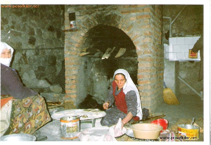 Traditionele oven Thanks to